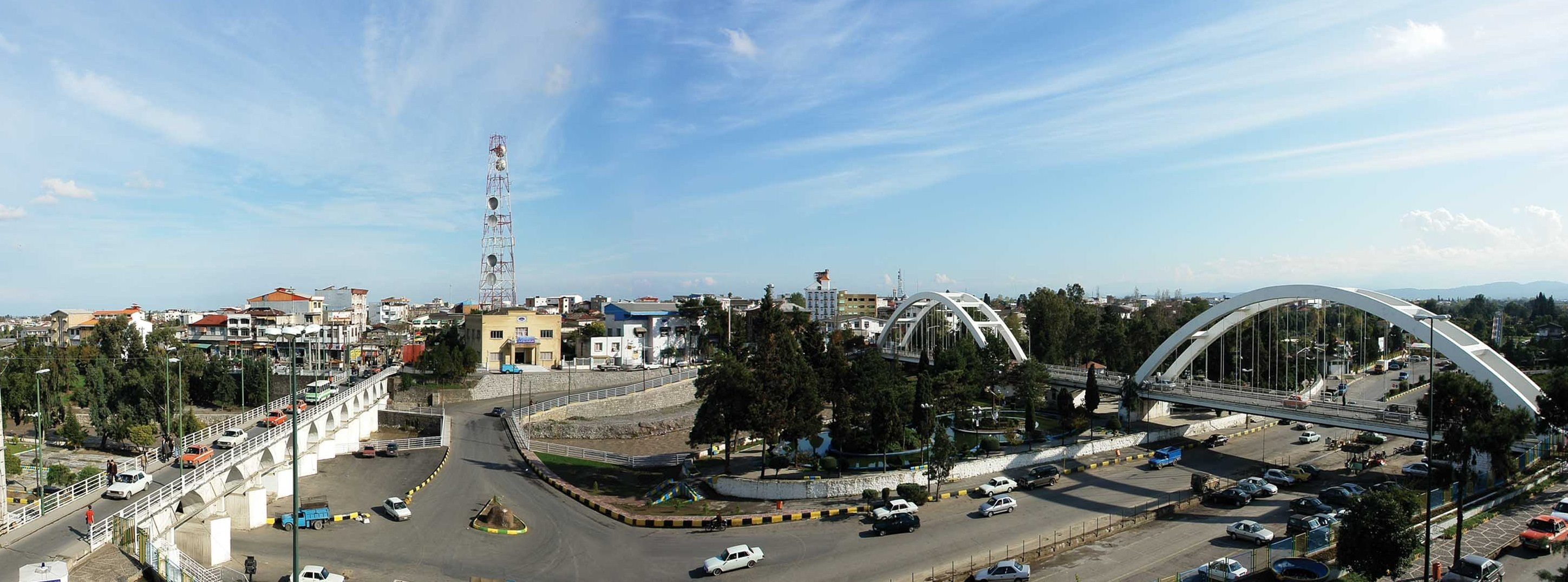 Amol Bridge